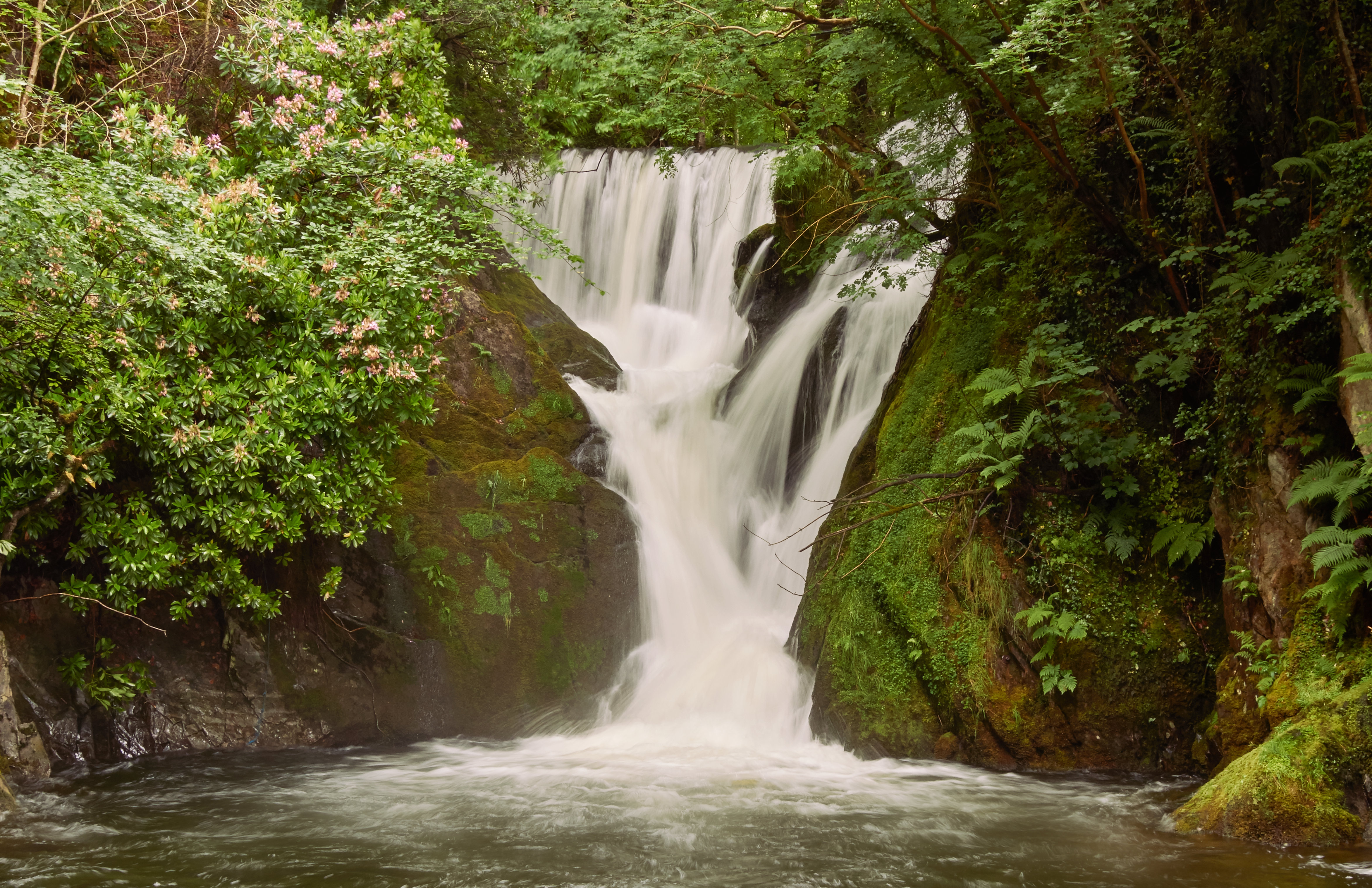 Waterfall at Dyfi Furnace, June 2016